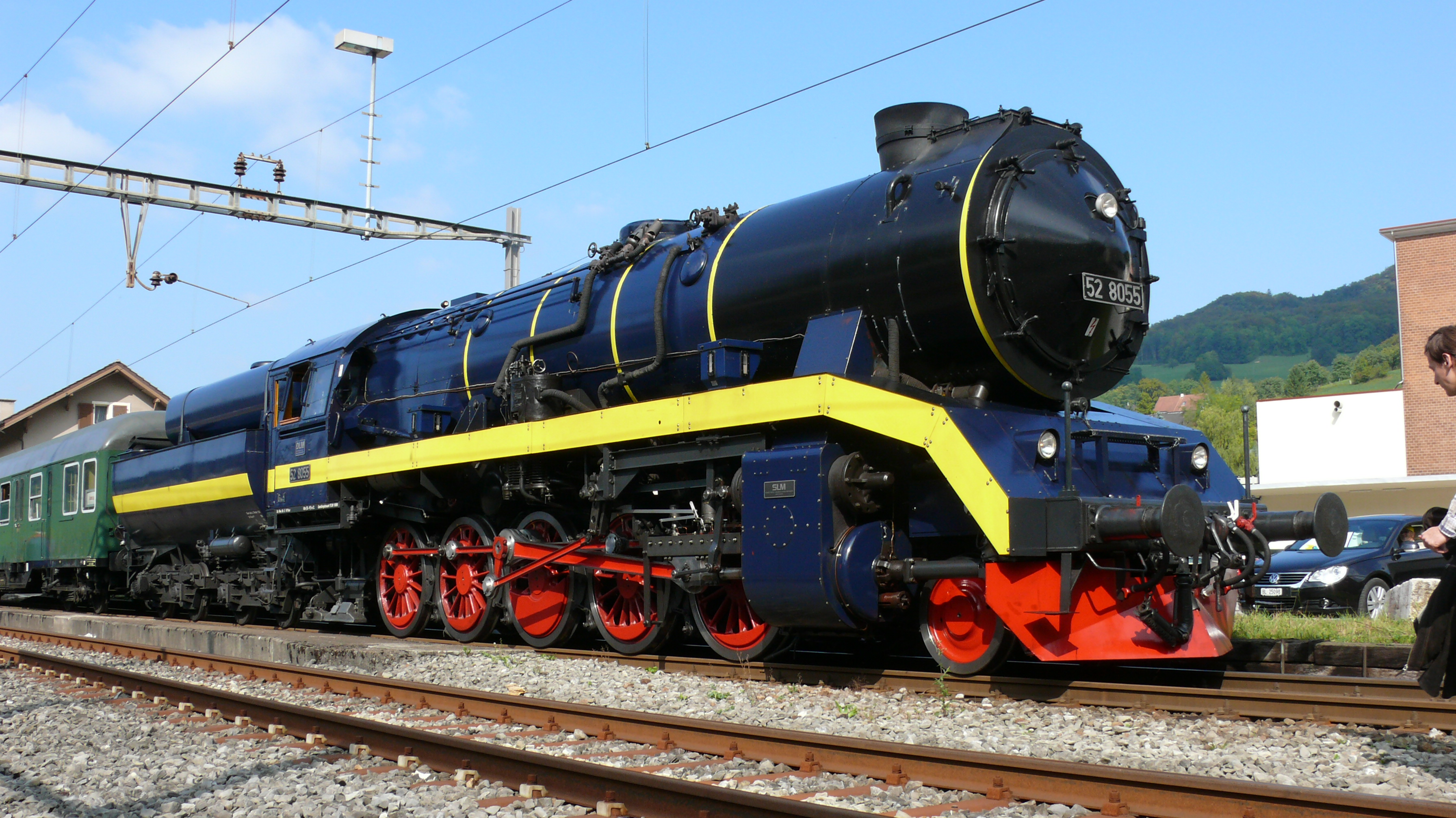 Steam locomotive modernised by Dampflokomotiv- und Maschinenfabrik DLM of Winterthur, Switzerland, a former DR 52.80, on the Swiss Hauenstein line, during the demonstration week Modern Steam am Hauenstein.